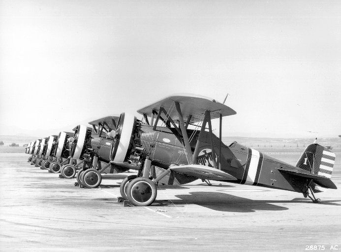 Boeing P-12s of the 17th Pursuit Group